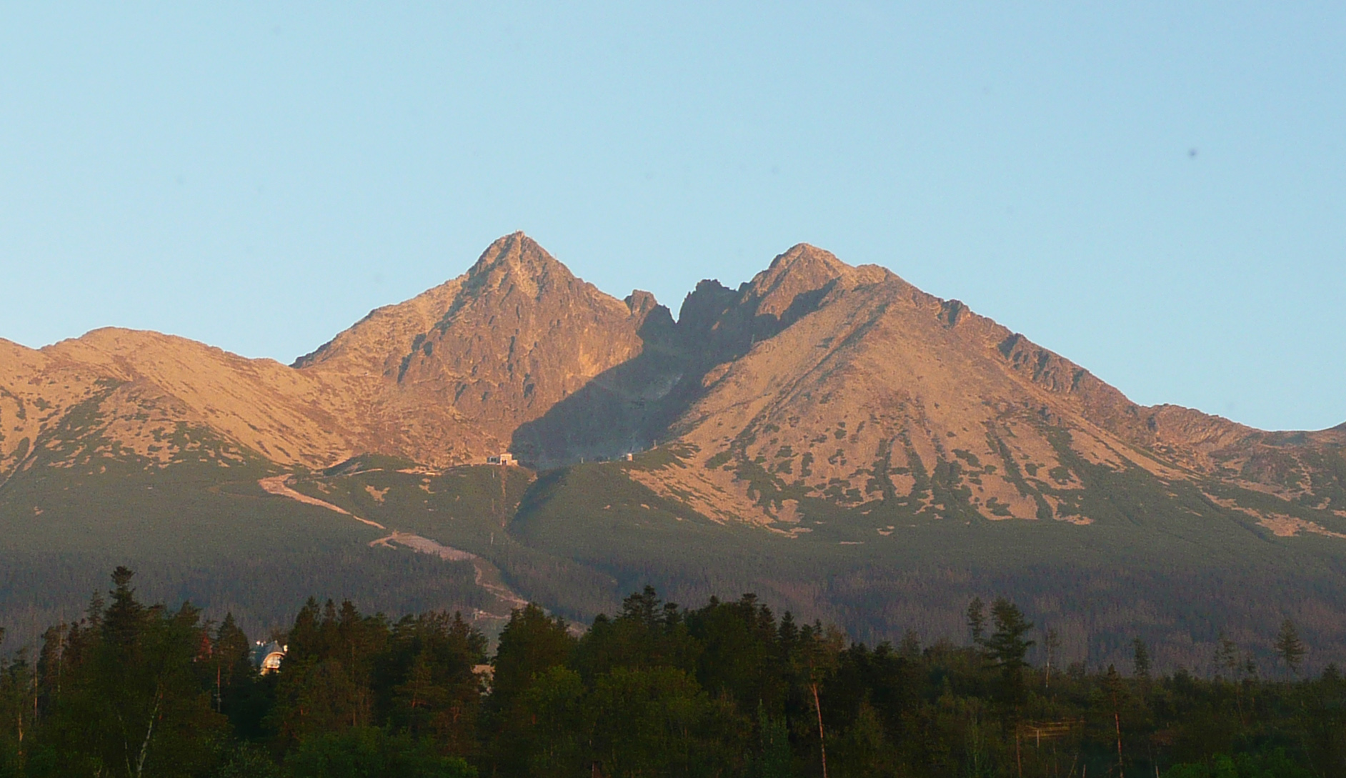 Lomnický štít at sunrise viewed from Hotel Titris, Slovakia